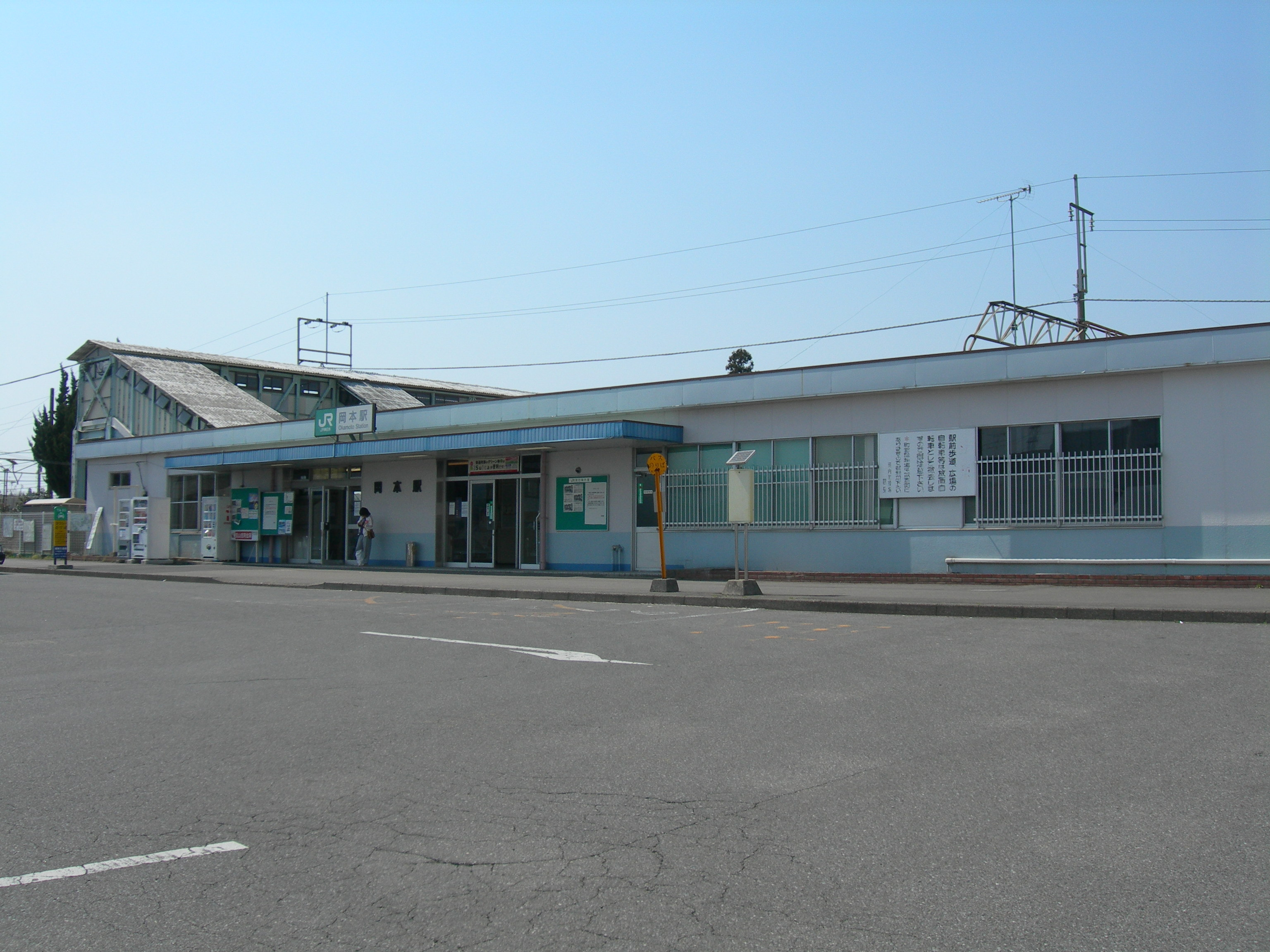 Okamoto Station, Tochigi Prefecture